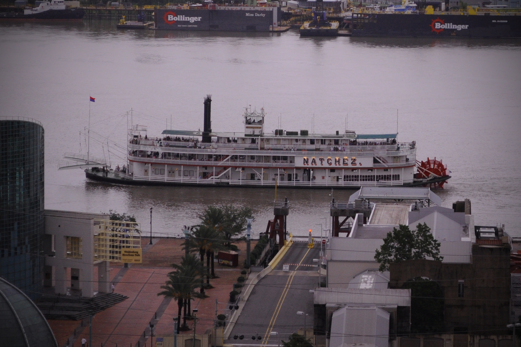 View to the foot of Canal Street, New Orleans, at the Algiers Ferry landing, with the riverboat Natchez in the Mississippi. "I've actually performed on the Natchez with the E.B. Coleman Big Band back in the day."